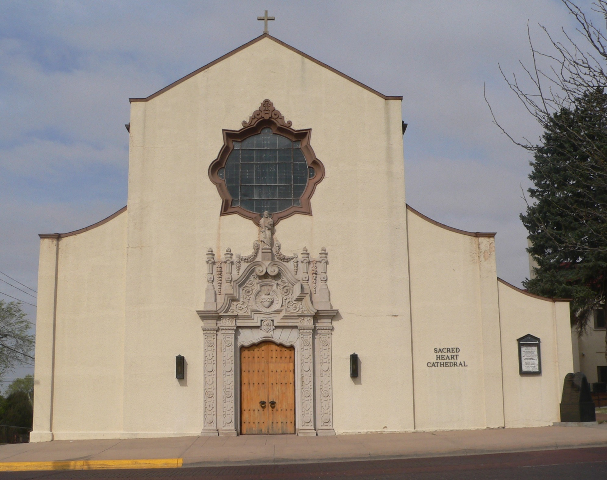 Sacred Heart Cathedral, located at northwest corner of Cedar Street and Central Avenue in Dodge City, Kansas; seen from the east, across Central.